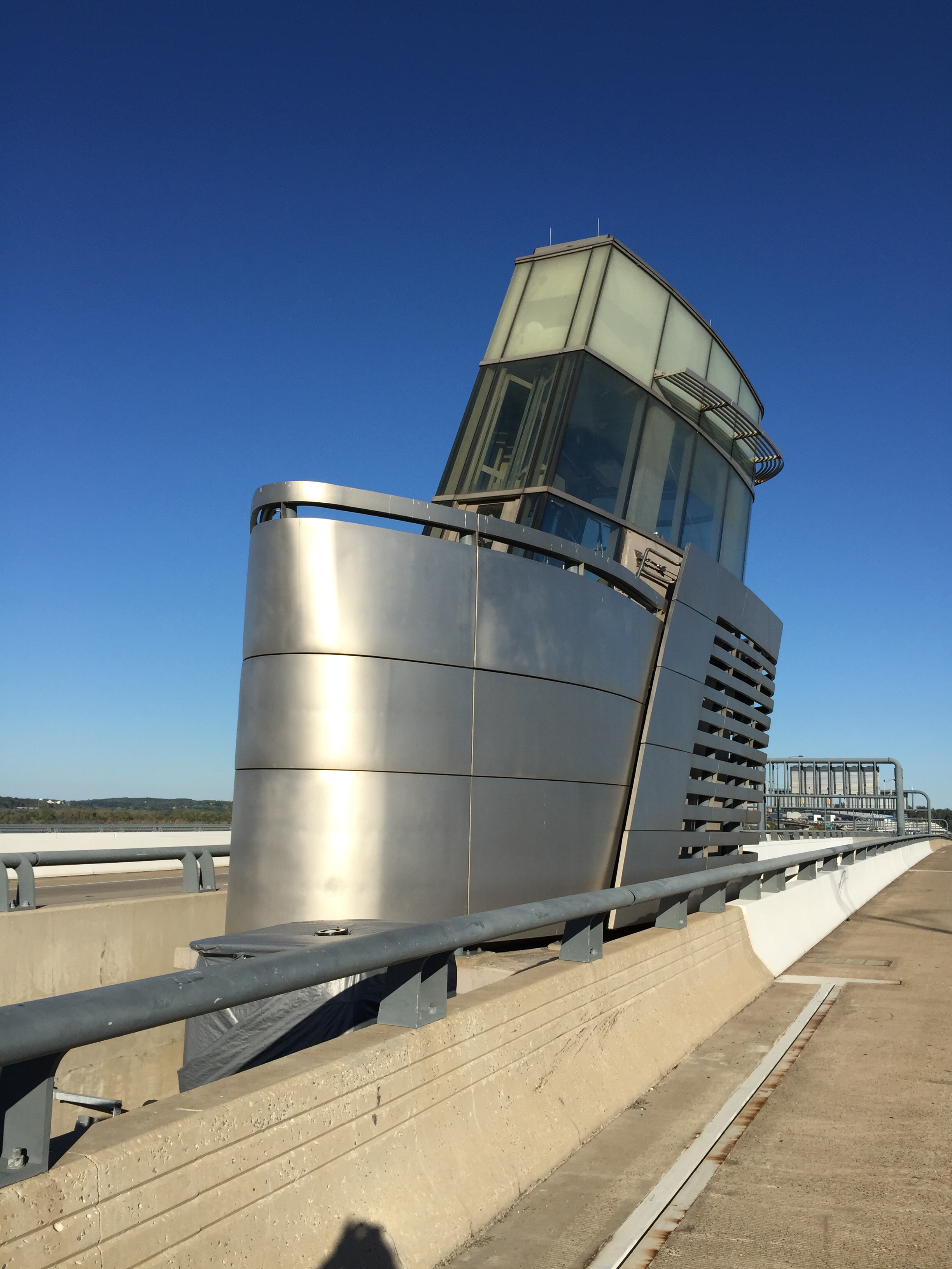 The Operator's Tower on Interstate 95 and Interstate 495 (Woodrow Wilson Memorial Bridge) over the Potomac River in Washington, D.C.